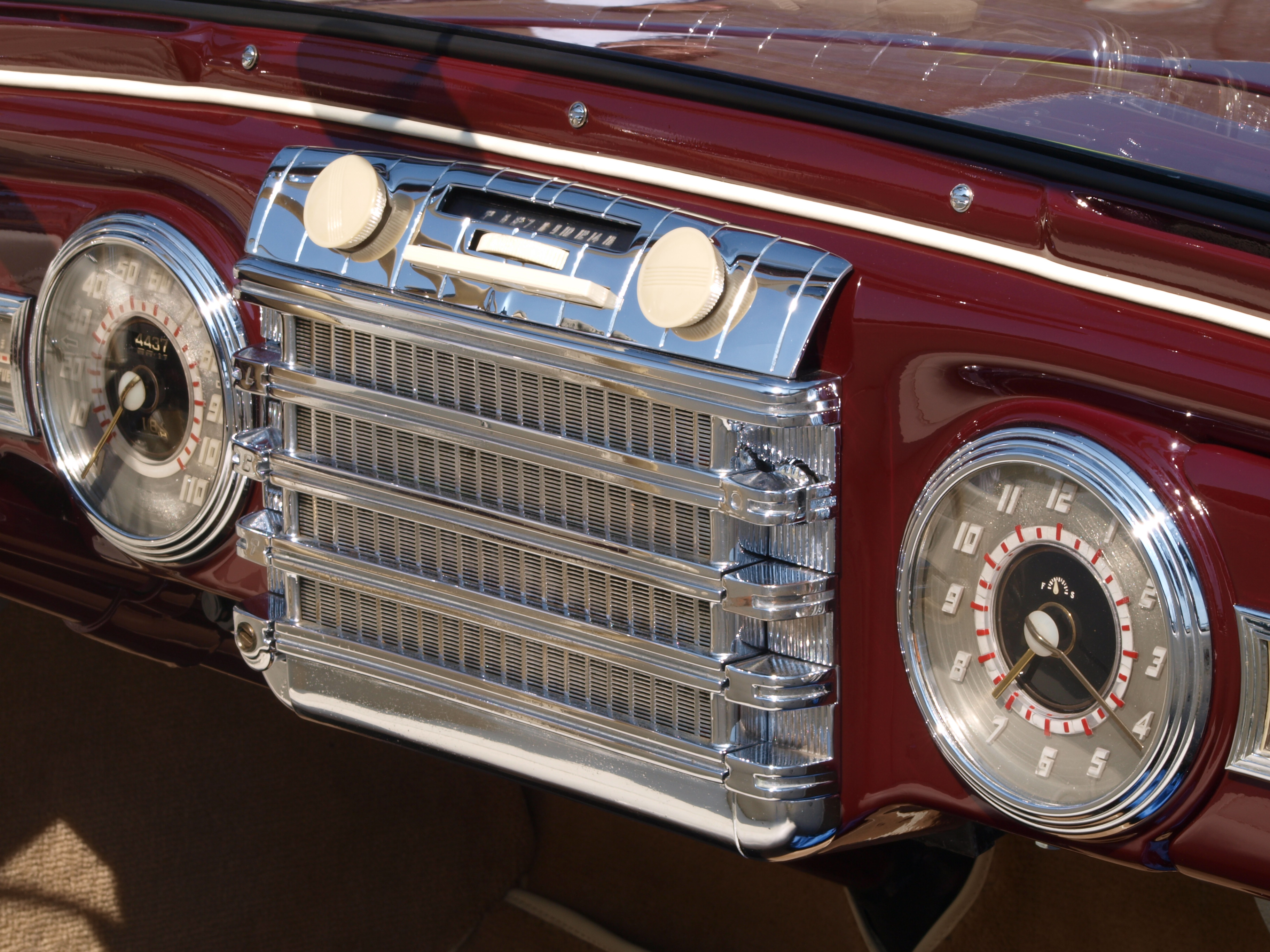 1942 Lincoln Continental Cabriolet radio, photographed at Zeeland, The Netherlands.